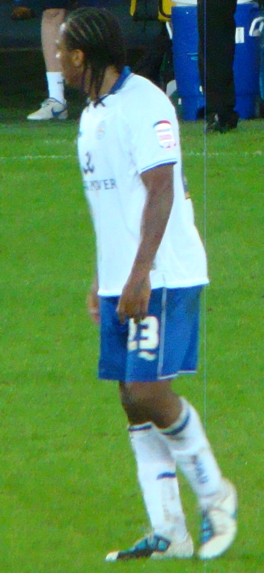 21/09/11 Cardiff V Leicester, Football League Cup, Cardiff City Stadium, Cardiff, Wales [Image cropped from original at Flickr]